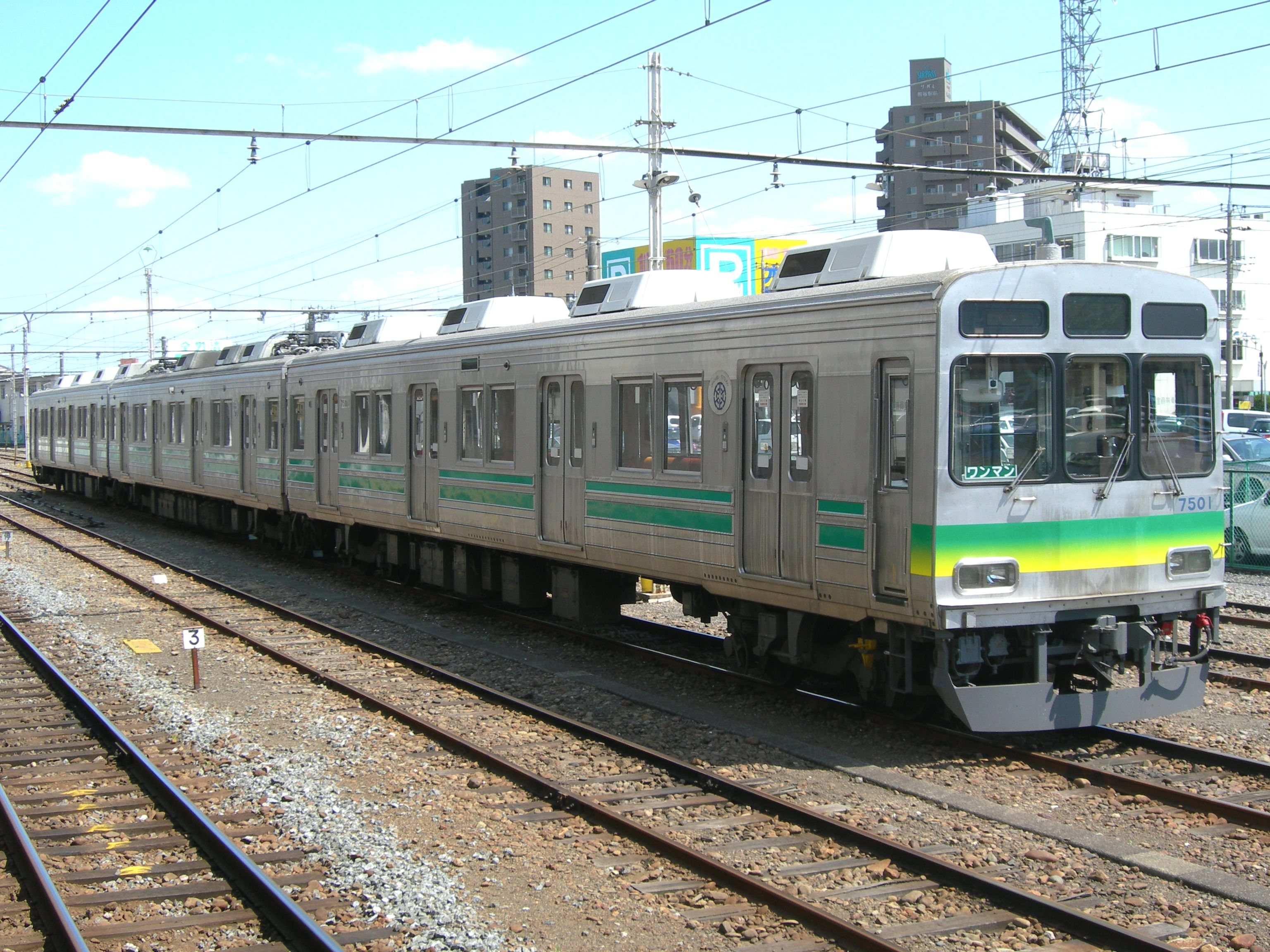 Chichibu Railway 7500 series EMU at Kumagaya Station